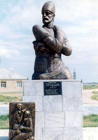 Ashuq Dilgam